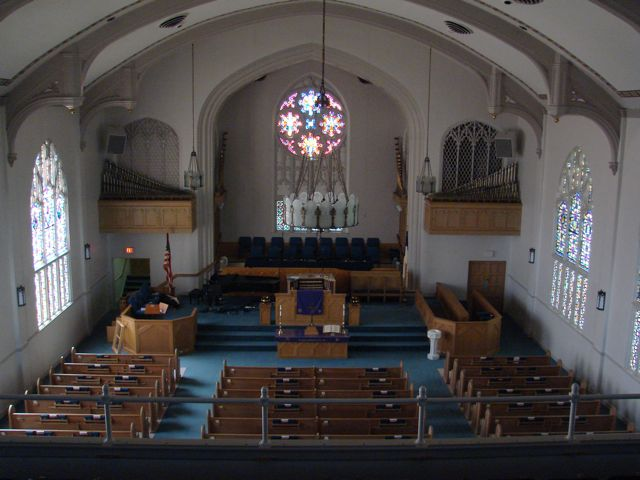 The sanctuary of First Presbyterian Church of Corpus Christi. Photo taken from balcony.